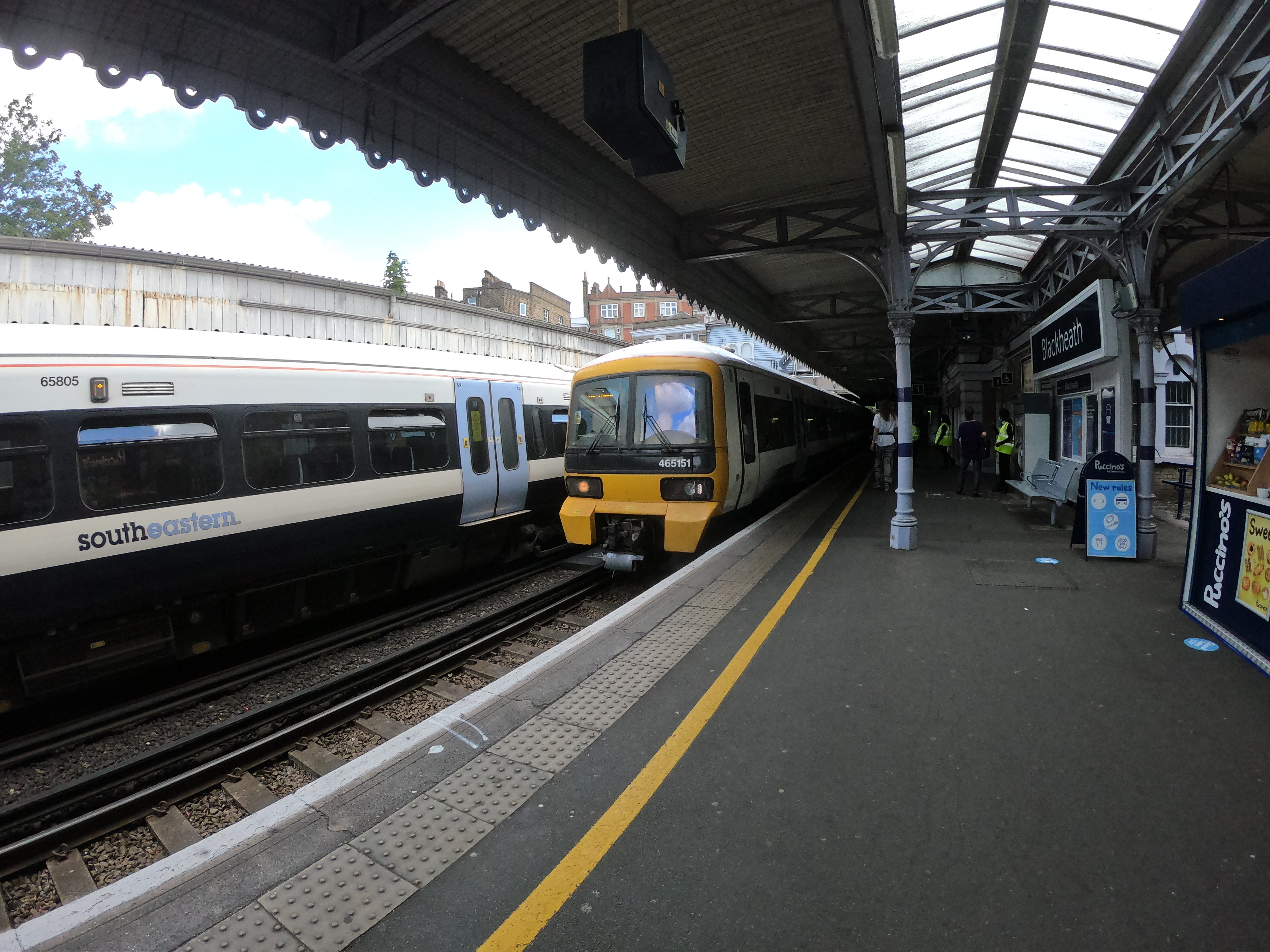 465151 at Blackheath station in 2020